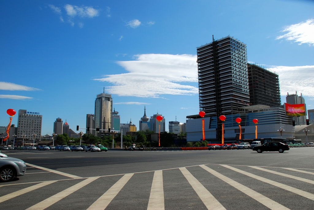 downtown shijiazhuang